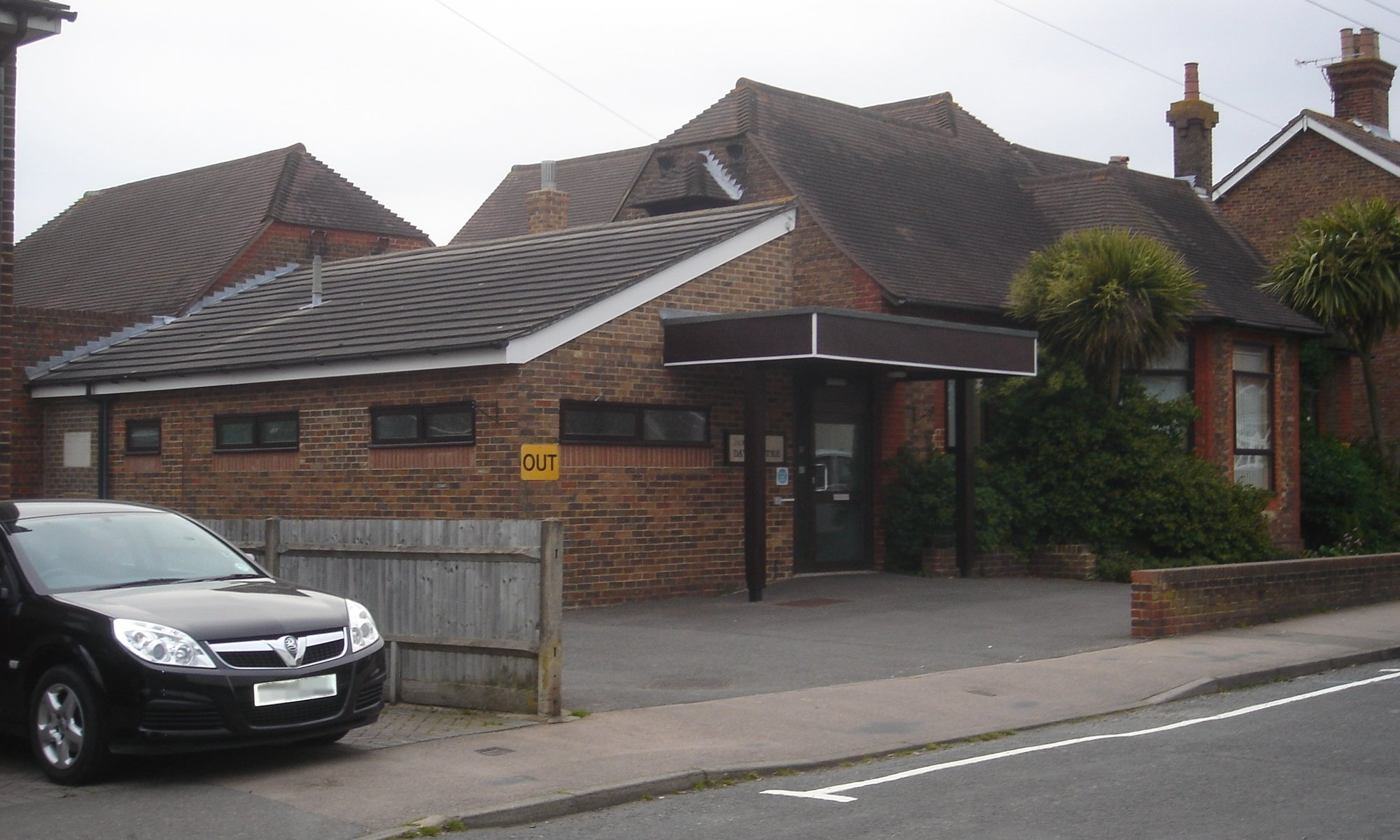 Former St Alban's Mission Hall, Fairfield Road, Burgess Hill, District of Mid Sussex, West Sussex, England. Built in 1885 as a mission chapel for the parish of St John the Evangelist. It is now an Age Concern day centre.